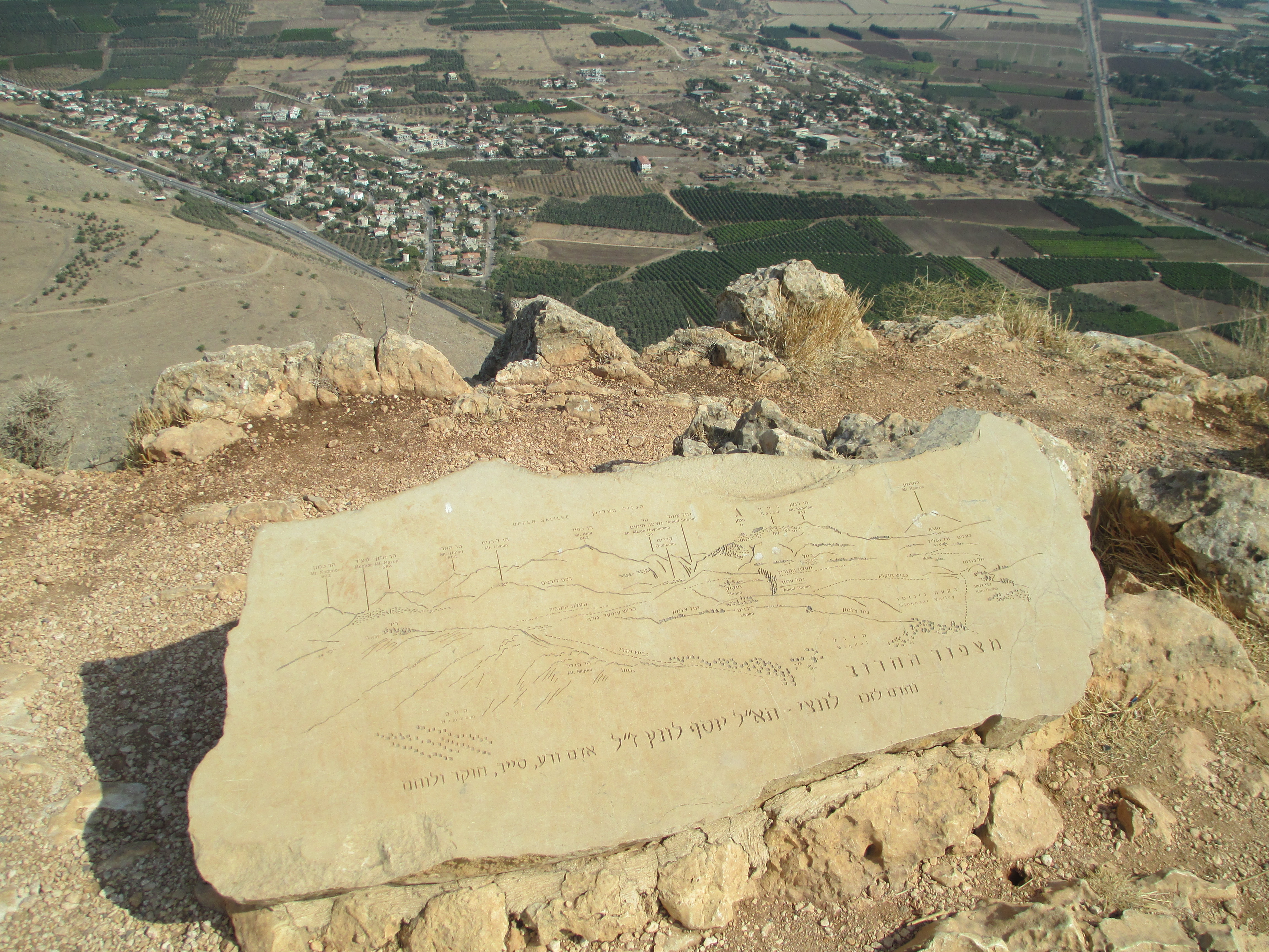 Arbel lookout